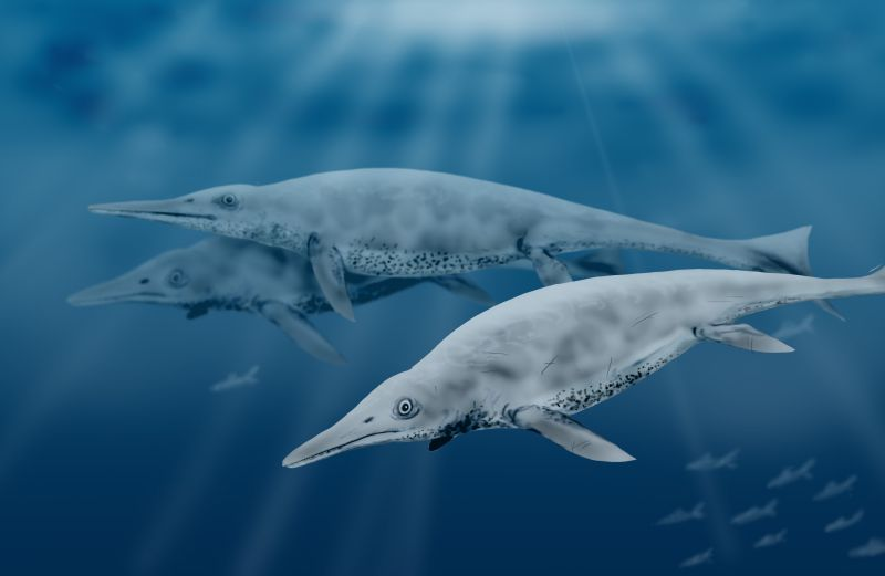 Shastasaurus altispinus (=S. pacificus), an ichthyosaur from the Late Triassic of California and Mexico, digital.